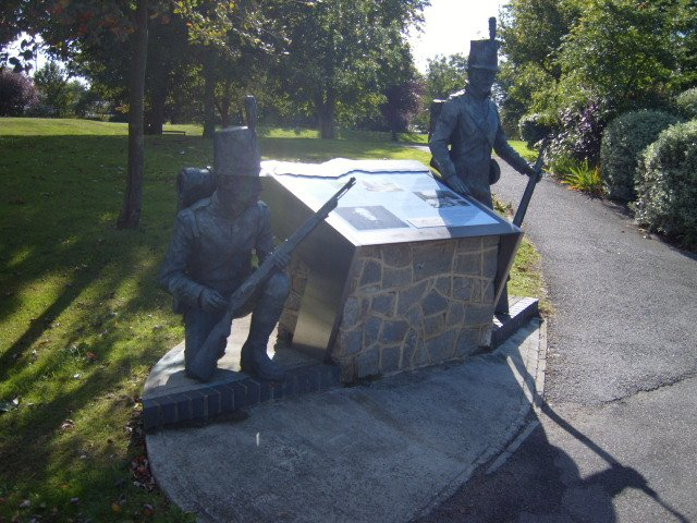 Statue of soldiers of Royal Staff Corps. Statue of soldiers of the Royal Staff Corps who supervised the construction of the Royal Military Canal, Hythe.